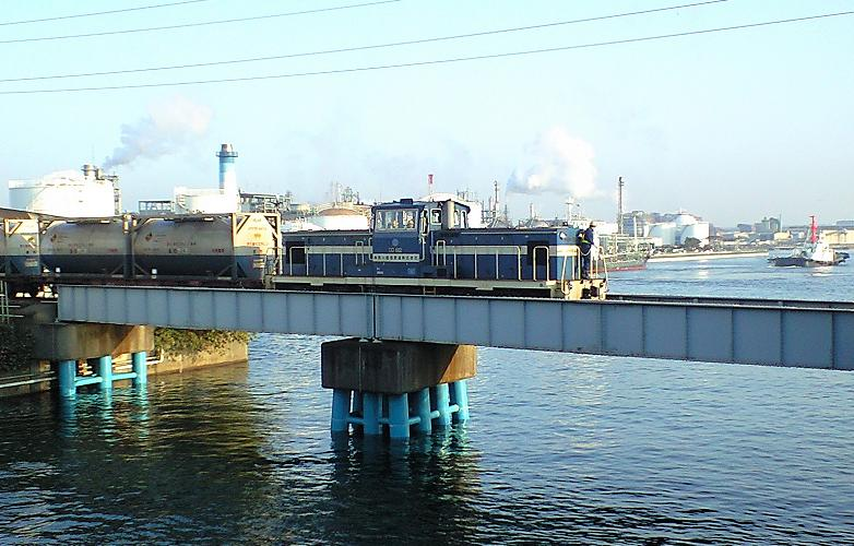 Chidori line of Kanagawa Rinkai Railway, Kawasaki city, Japan.